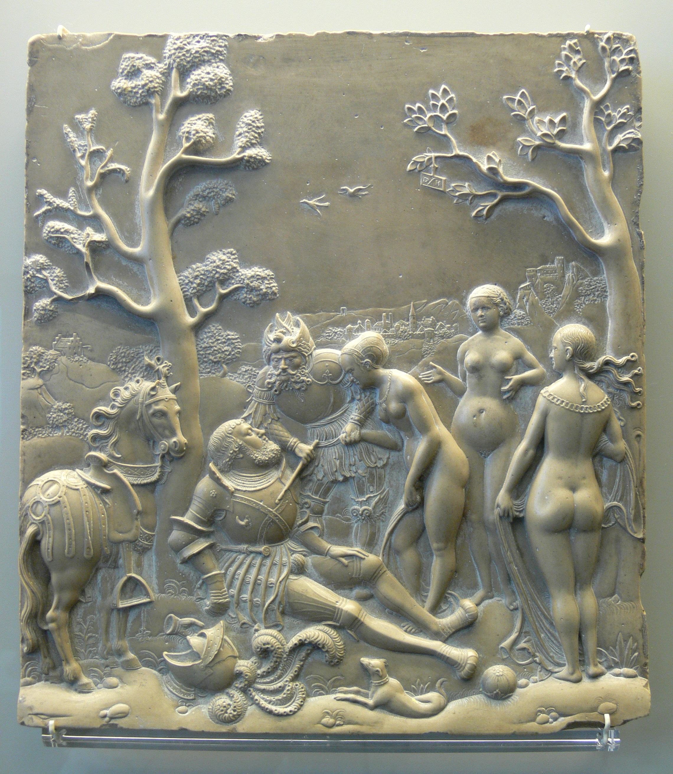 Doman Hering: Judgement of Paris, c. 1529, Solnhofen limestone, 22 x 19.7 cm; Paris (the knight) is a portrait of Otto Henry, Elector Palatine, Hera a portrait of his wife Susanna. Skulpturensammlung (Inv. no. 1959, acquired in 1892, Falcke collection), Bode-Museum Berlin.